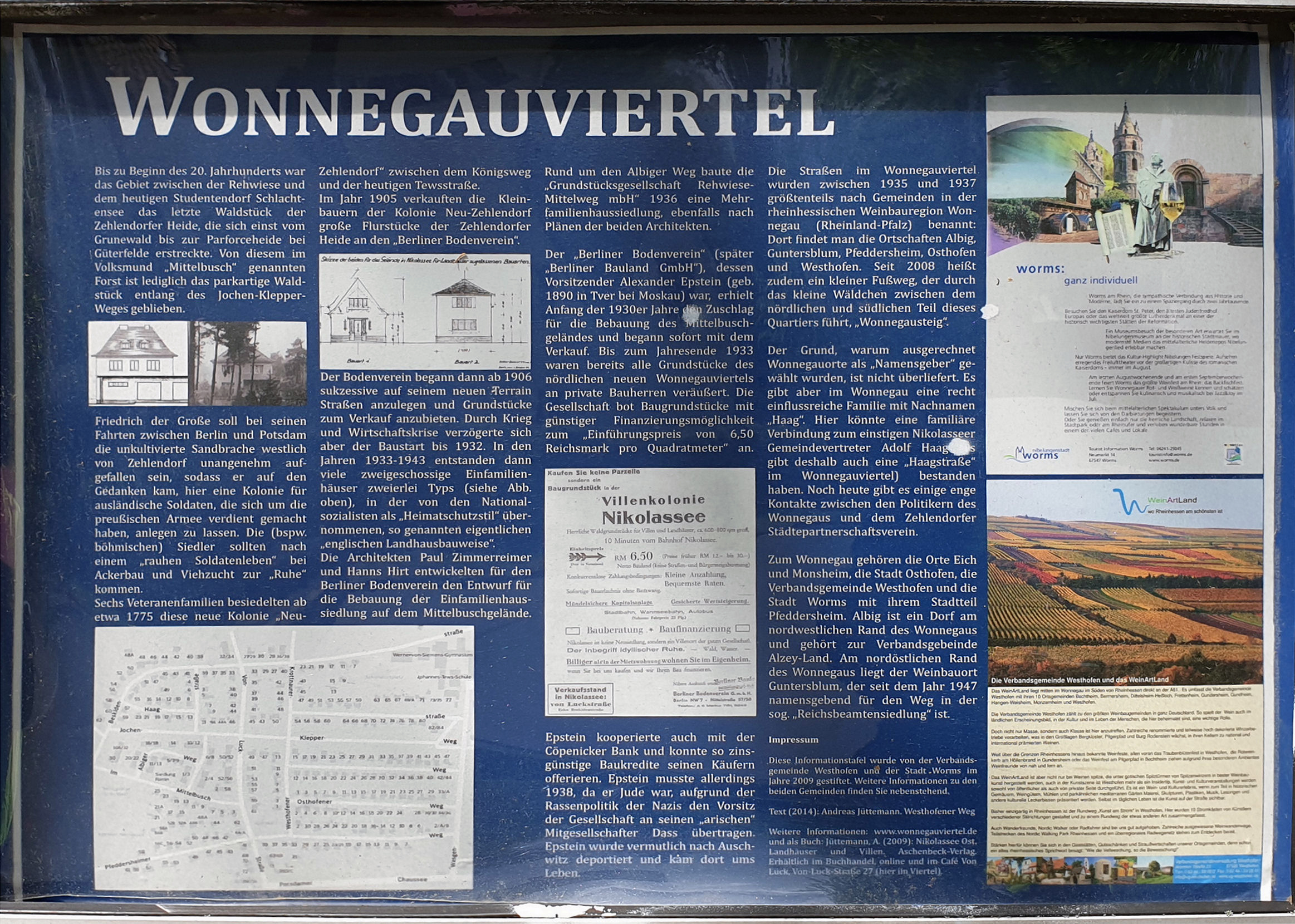 Memorial plaque, Wonnegauviertel, Pfeddersheimer Weg 38, Berlin-Nikolassee, Deutschland